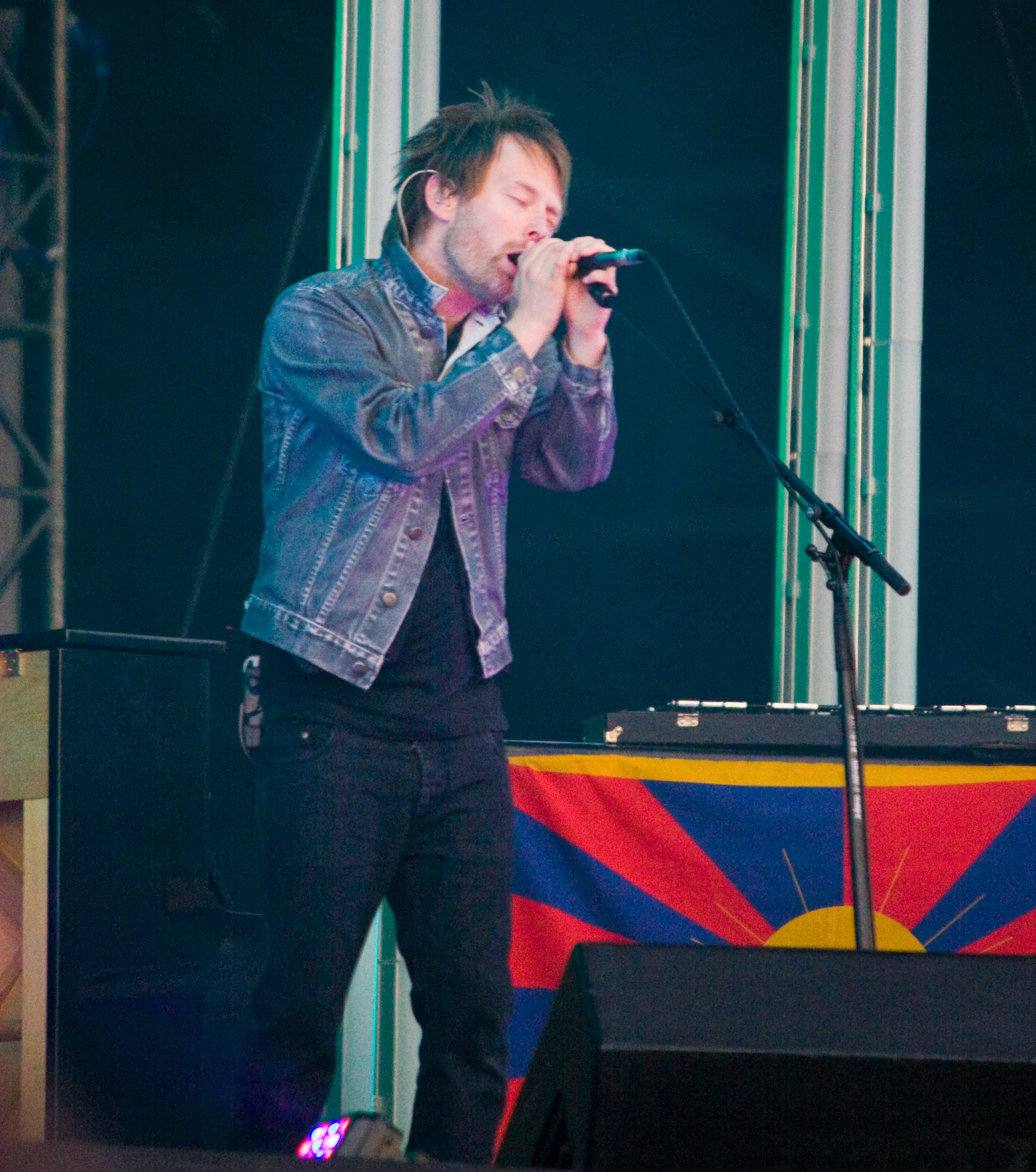 Thom made a very pro-Tibet stand during the concert. It angered some people, but I think the average Radiohead fan tolerated some politics at the event.